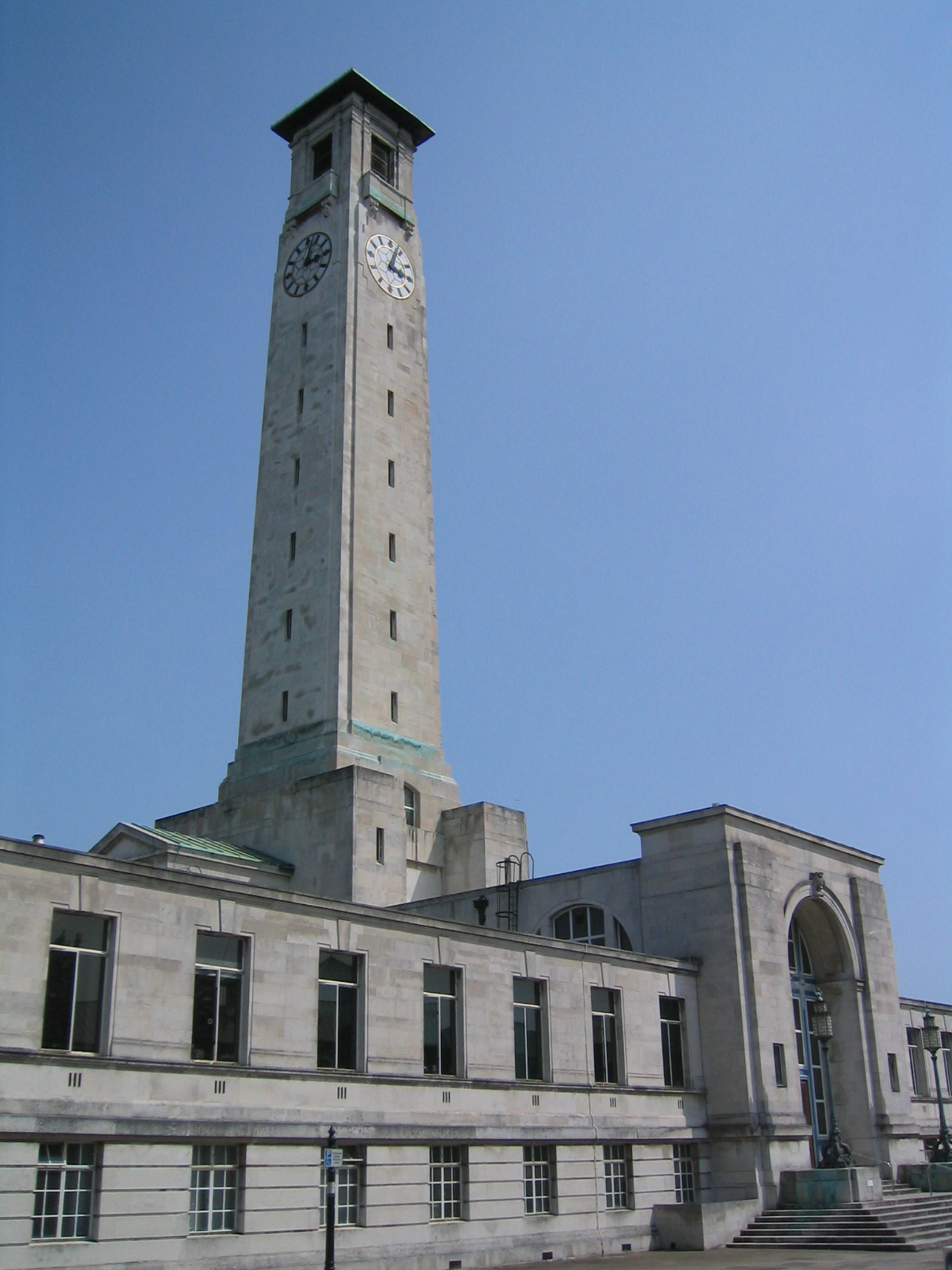 Southampton Civic Centre, west wing (now the police station, originally the law courts), with the clock tower. also known as the guildhall. Photo taken by me 2005-06-07.